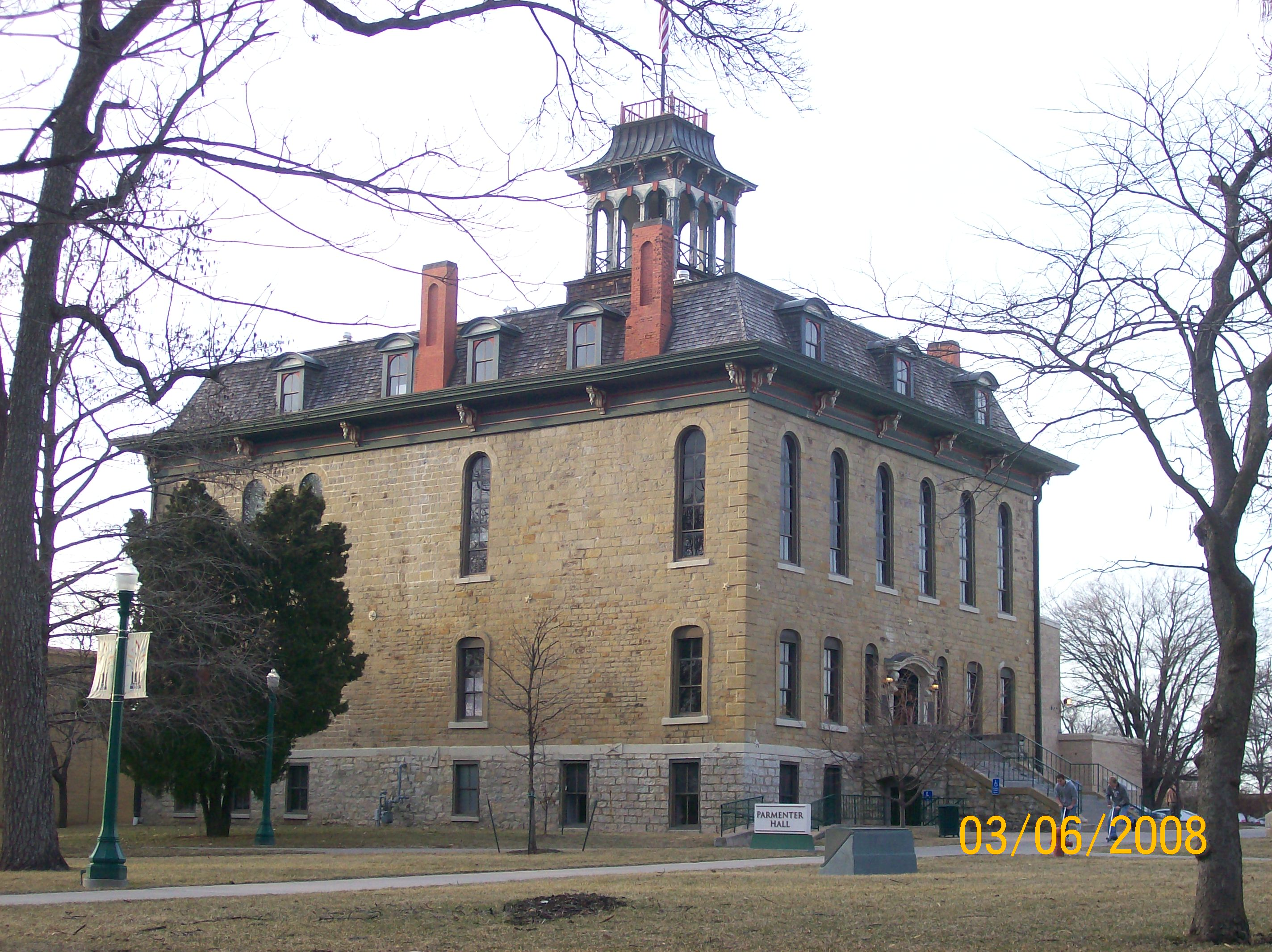 Parmenter Hall on Baker University Campus Baldwin City, Kansas